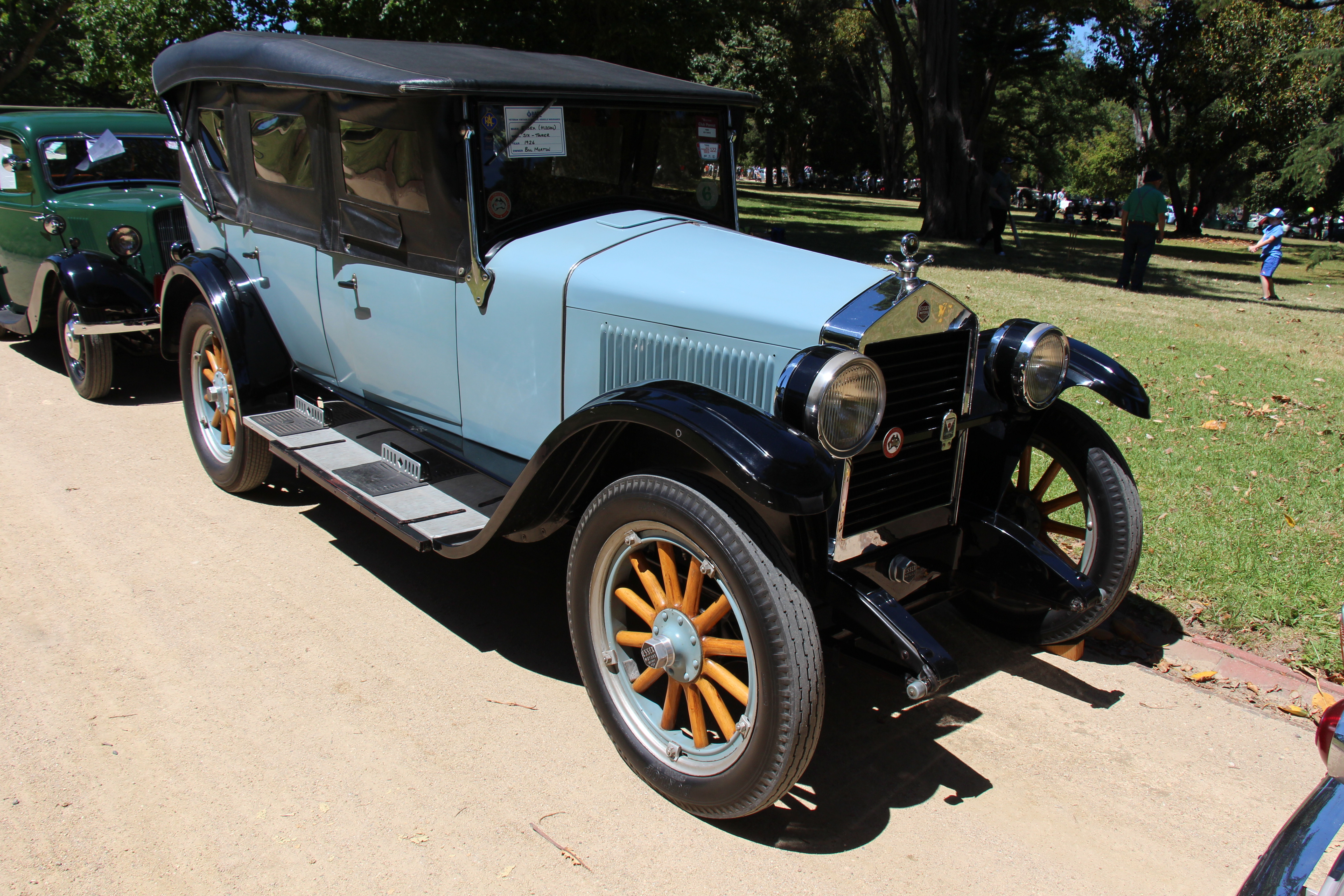 The Essex was produced by the Essex Motor Company from 1918-22 and by Hudson Motor Company from 1922-32. For 1934 the Essex name was no more and the car carried on as the Terraplane. Essex cars were designed to be moderately priced cars which would be affordable to the average family. Engine; 144.6 cu in L head 6 cyl